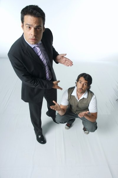 Yemec